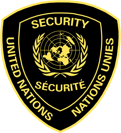 Logo used by United Nations Guard Contingent in Iraq and UN-Security guards.